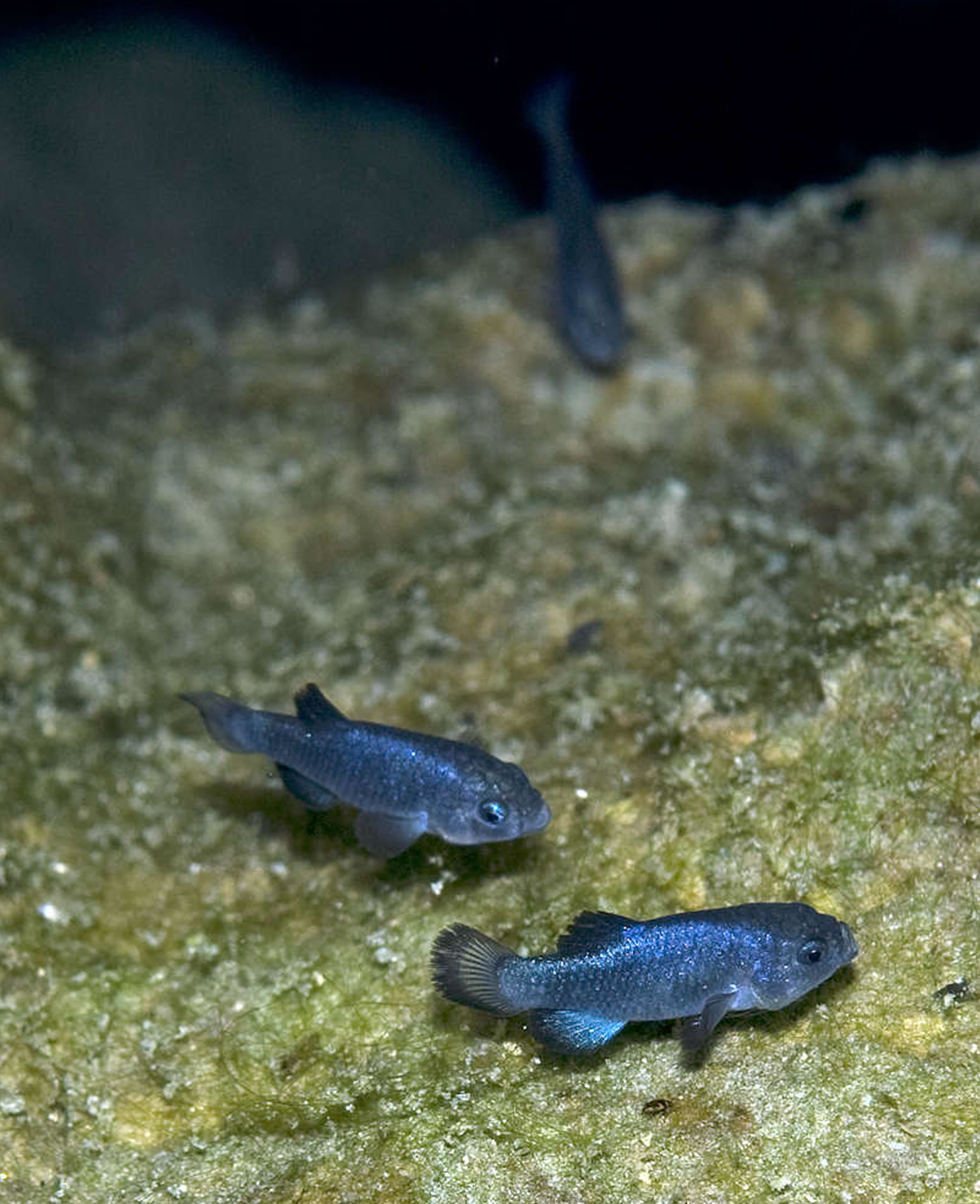 Devil's Hole pupfish, Cyprinodon diabolis